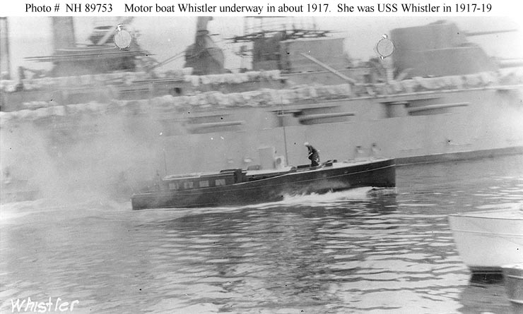 The United States Navy patrol vessel passing a Virginia-class battleship around the time of her acquisiton by the Navy in May 1917.